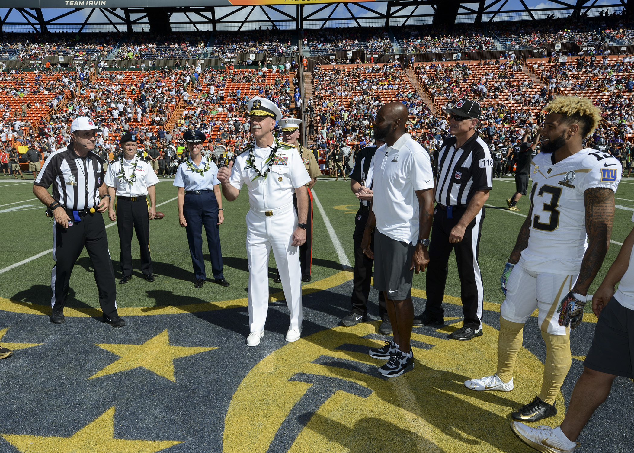 Adm. Scott Swift, commander of U.S Pacific Fleet, participates in the opening coin toss during the 2016 Pro Bowl at Aloha Stadium in Honolulu Jan. 31, 2016. (U.S. Navy photo by Mass Communication Specialist 2nd Class Brian M. Wilbur/Released)